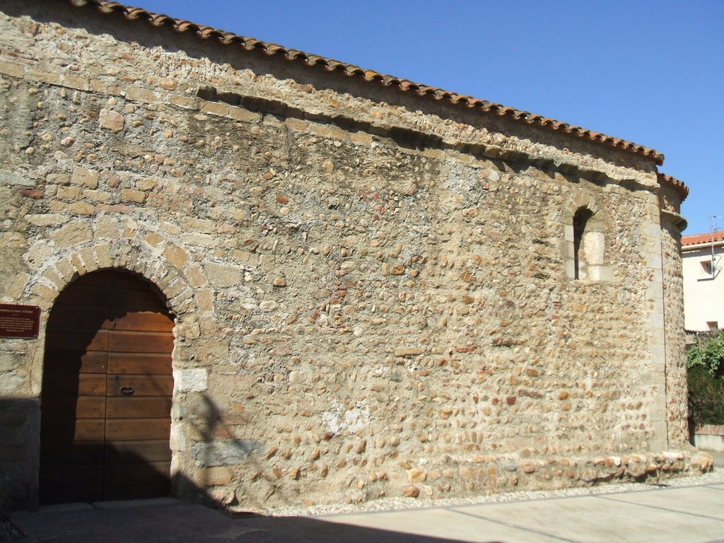 Saleilles (département of Pyrénées-Orientales, Languedoc-Roussillon région, France) : Saint-Etienne chapel (XIIth century), former church of the village.